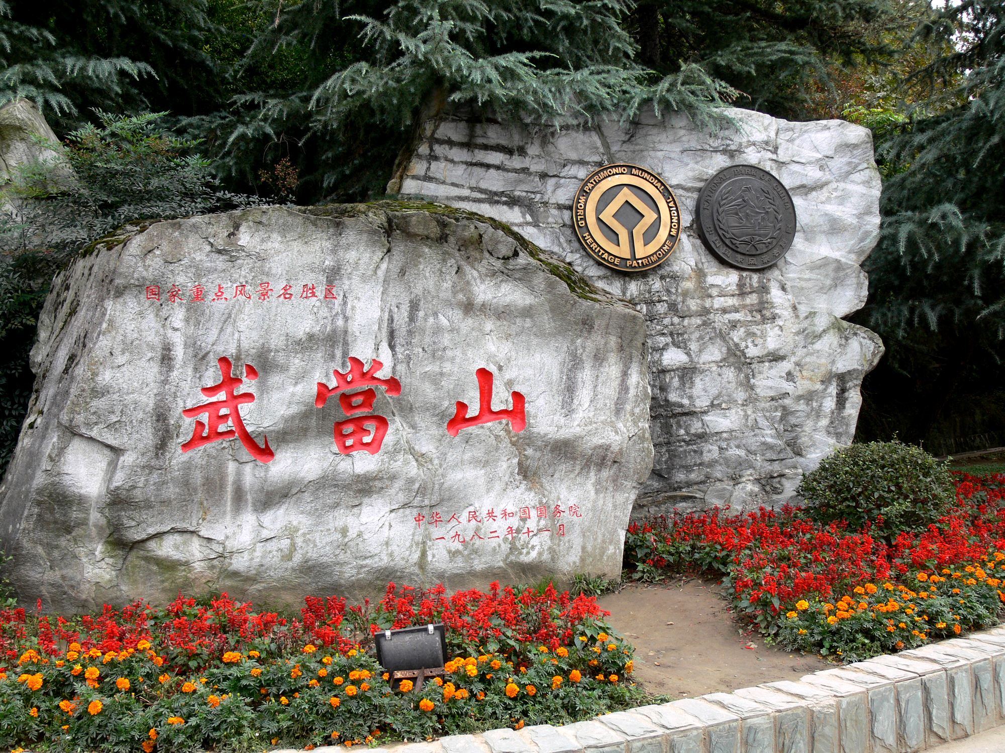 World Culture Heritage site- Ancient Building Complex at Mount Wudang